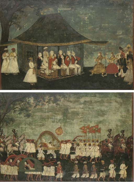 Lot Description Tanjore School, circa 1785-6 Sir John Dalling and fellow officers in procession; and Sir John Dalling and fellow officers watching a nautch one with inscription 'General Sir John Dalling. Bart/Governor of Madras.' (on the stretcher) pen and black ink and bodycolour, heightened with gold, varnished, on paper laid down on canvas 24¼ x 35¾ in. (61.5 x 90.8 cm.) a pair (2) Special Notice No VAT will be charged on the hammer price, but VAT at 17.5% will be added to the buyer's premium, which is invoiced on a VAT inclusive basis. Pre-Lot Text The art historical term Company School Painting, is derived from the patrons who for the most part were employees of the various European East India Companies. The European visitor to India who arrived in the last quarter of the 18th Century tended to have time on his hands to appreciate Indian culture. A romantic fascination with Indian everyday life led the Europeans to commission vast sets of watercolours to send back to friends and family, depicting tradesmen and local crafts, conveyances, bazaars, architecture and the local flora and fauna. Indian artists were trained in the court ateliers of Mughal and Rajput leaders as manuscript illustrators. Their technique was characterized by a vibrant palette and a miniaturist attention to detail, where pattern was more important than naturalism. Western naturalism, however, began to influence the local artists as they began to copy the painting techniques and palettes of artists such as Hodges, the Daniells, Solvyns and D'Oyly. Company painting was a short-lived phenomenon at its apogee between 1800-1840. Earlier works are rare and after 1850 photography was a preferred medium to record Indian life for the people back home. The Property of a Family Trust